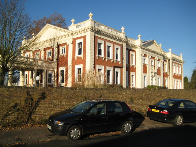 Sunbury Court Conference Centre. Sunbury Court was built in 1723 for John Witt, who was probably a retired master builder. Much sold, bought, and extended through the years it was last occupied as a residential home by William Horatio Harfield. When he died in 1910, the building became derelict and only when the Salvation Army purchased it in 1925 was it saved. Today the Salvation Army still run the Grade II* listed building as an international conference centre. This view was taken from the Lower Hampton Road outside.